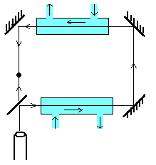 scheme of Fizo experiment